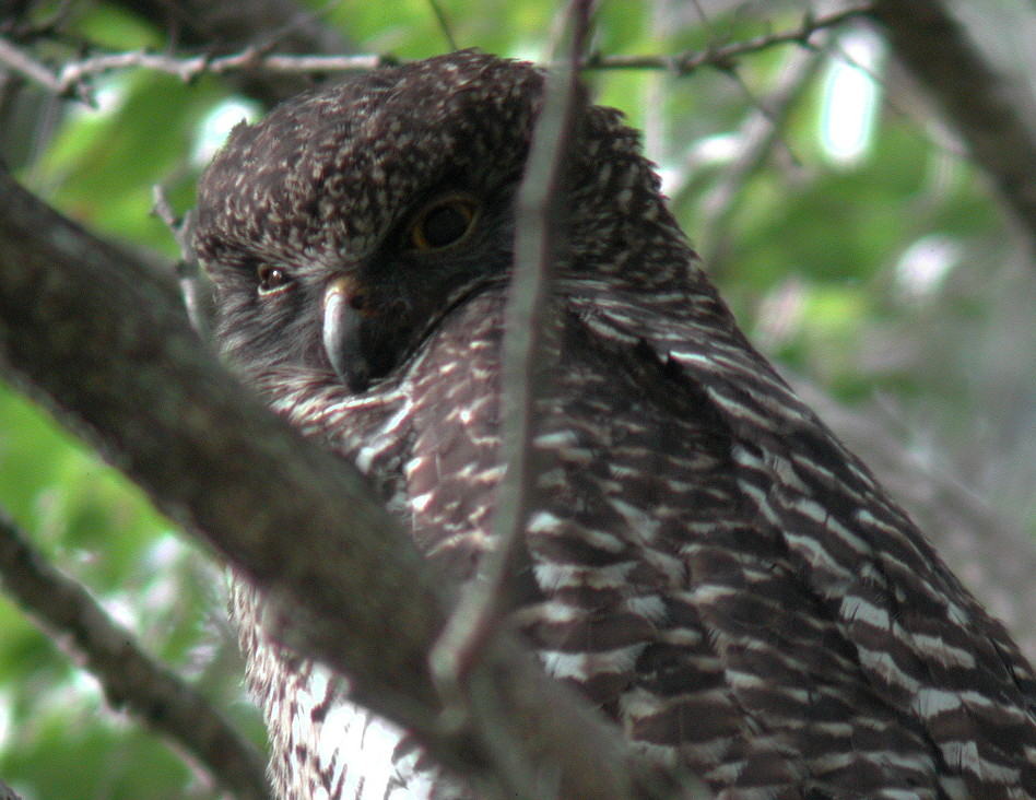 Powerful Owl (Ninox strenua) Mt Coot-tha, SE Queensland, Australia